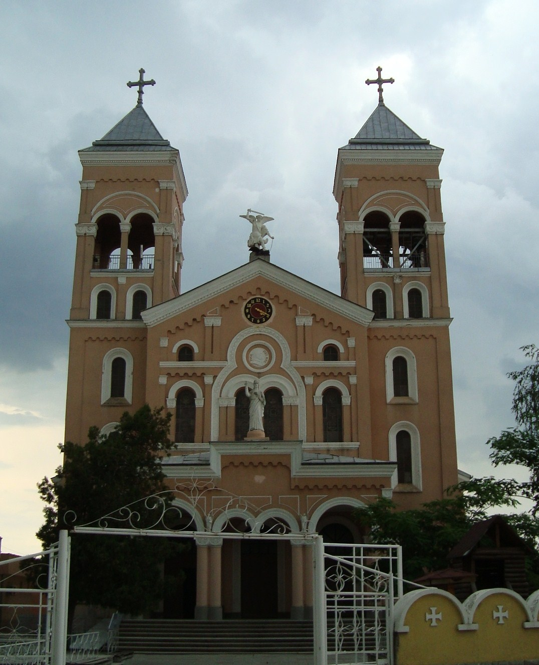 Catholic church in Rakovski, Bulgaria